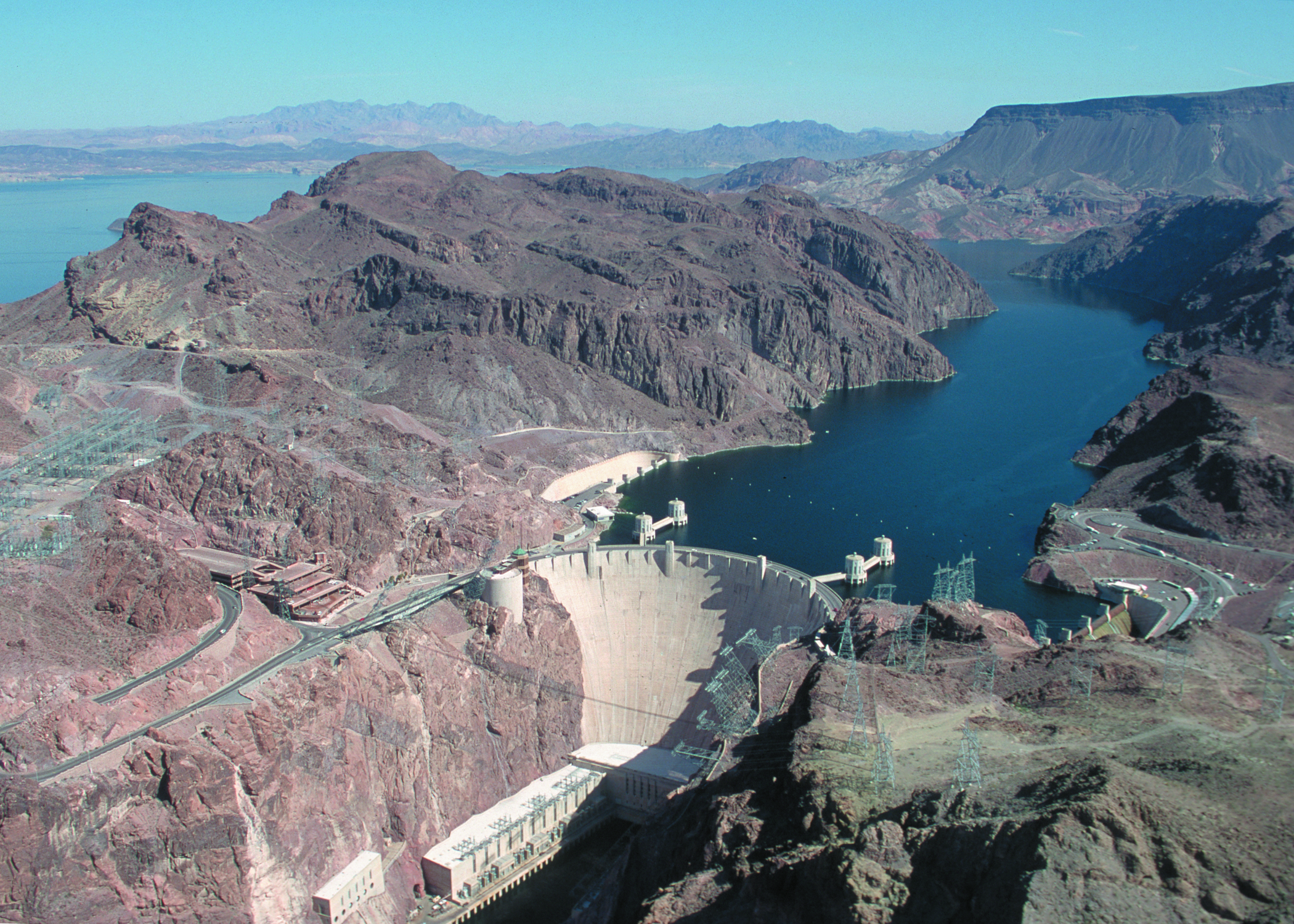 Hoover Dam from air, Clark County, NV